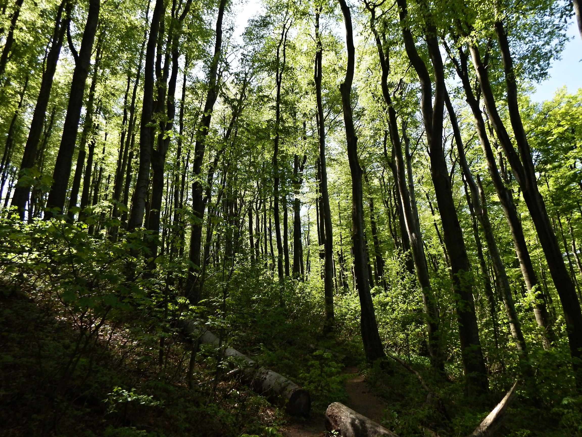 Javorina, national natural reserve in Uherské Hradiště District, Czech Republic.